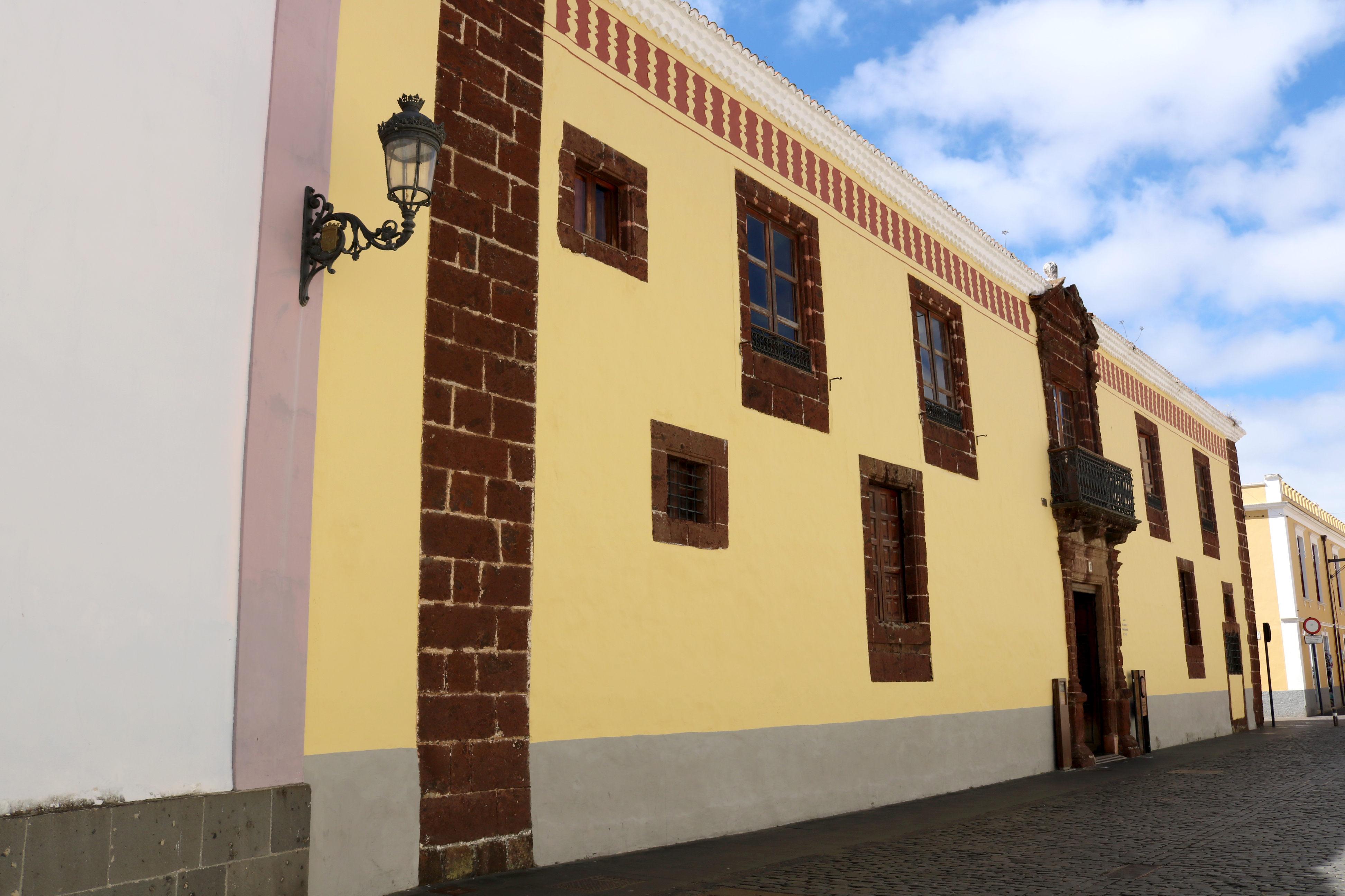 Casa de los Capitanes Generales (also called Casa Alvarado Bracamonte), in San Cristóbal de La Laguna, Tenerife